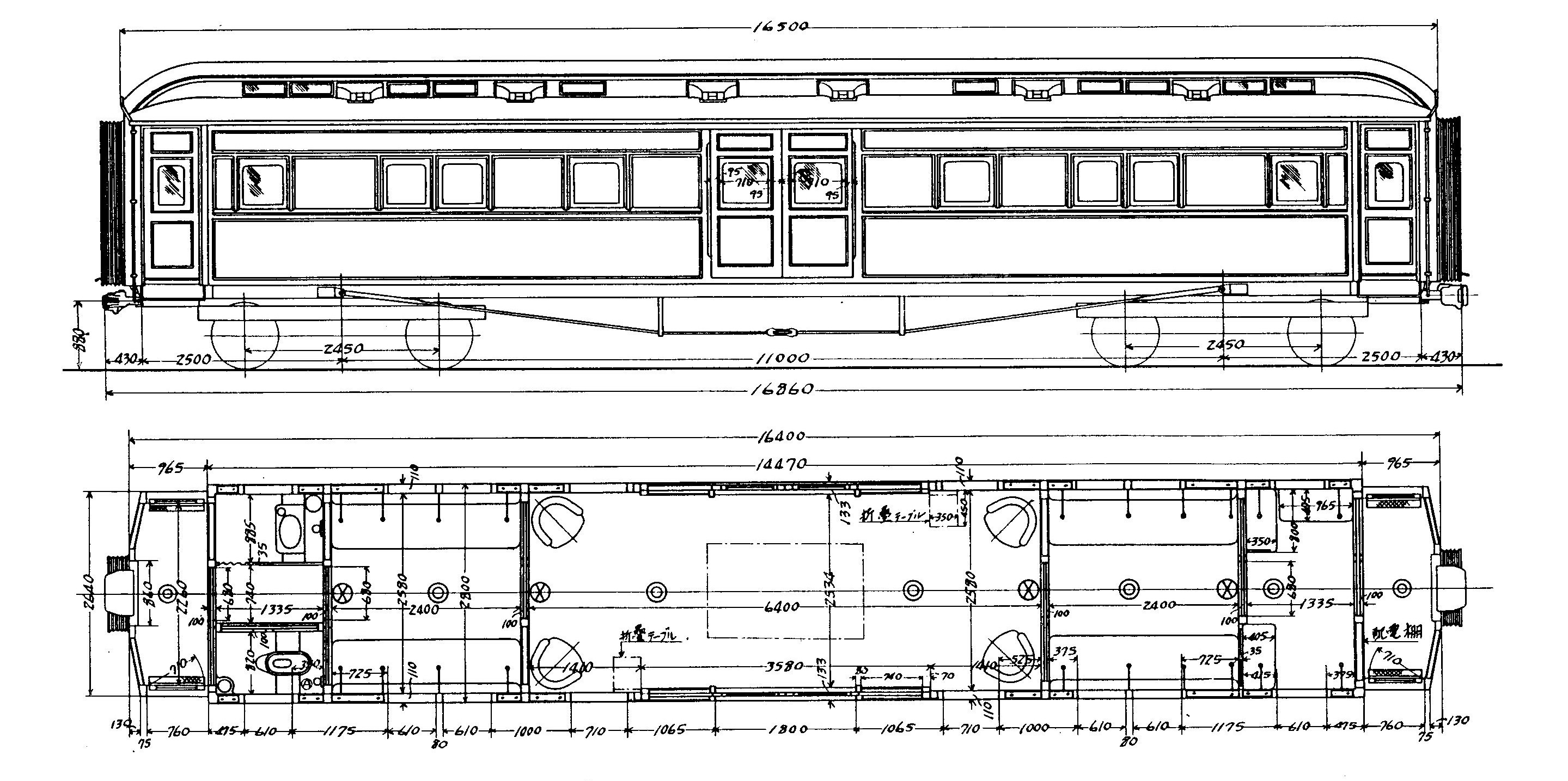 Type drawing of JGR's passenger car Oihe26900